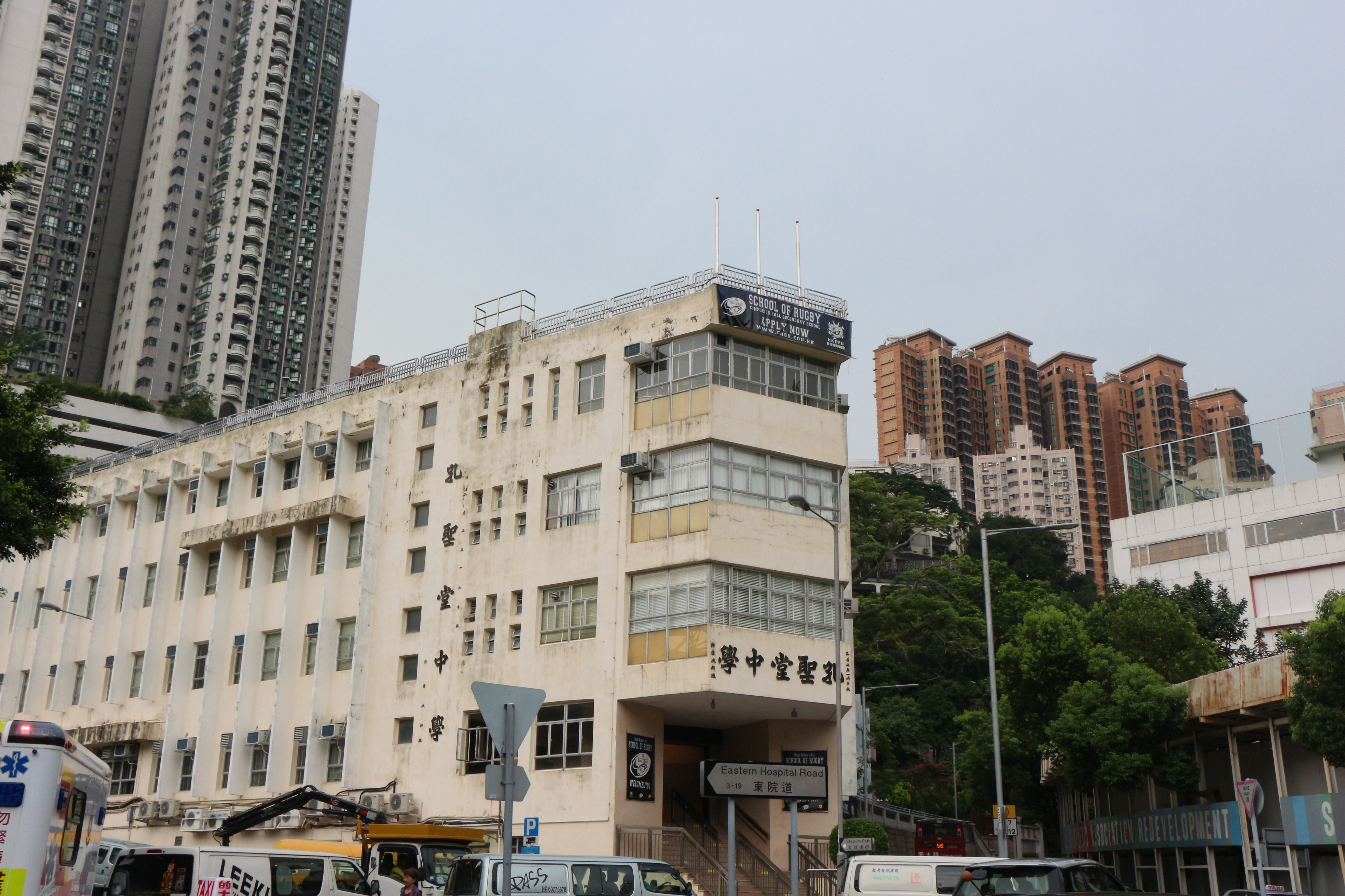 Outside Confucius Hall Secondary School, 2014